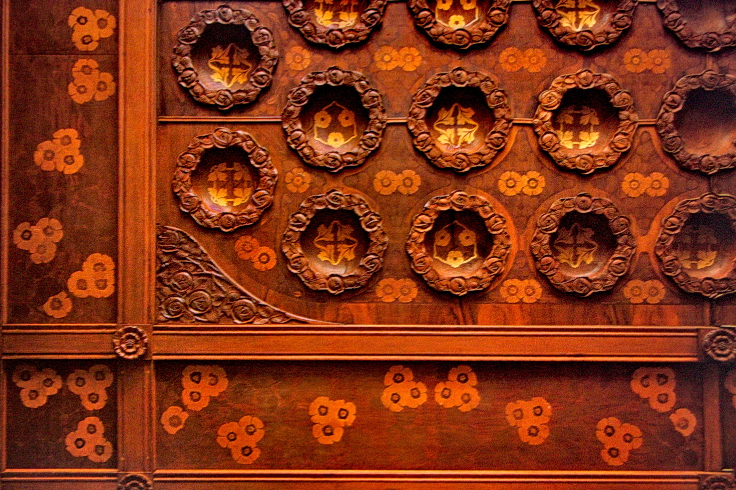 Casa Lleó i Morera. Sostre del saló del pis principal dissenyat per Gaspar Homar.